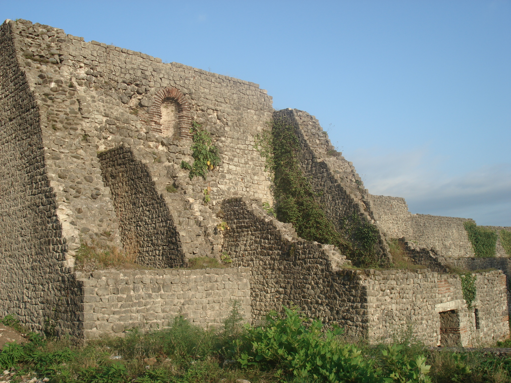 Ruins of the Nokalakevi fortress, Georgia